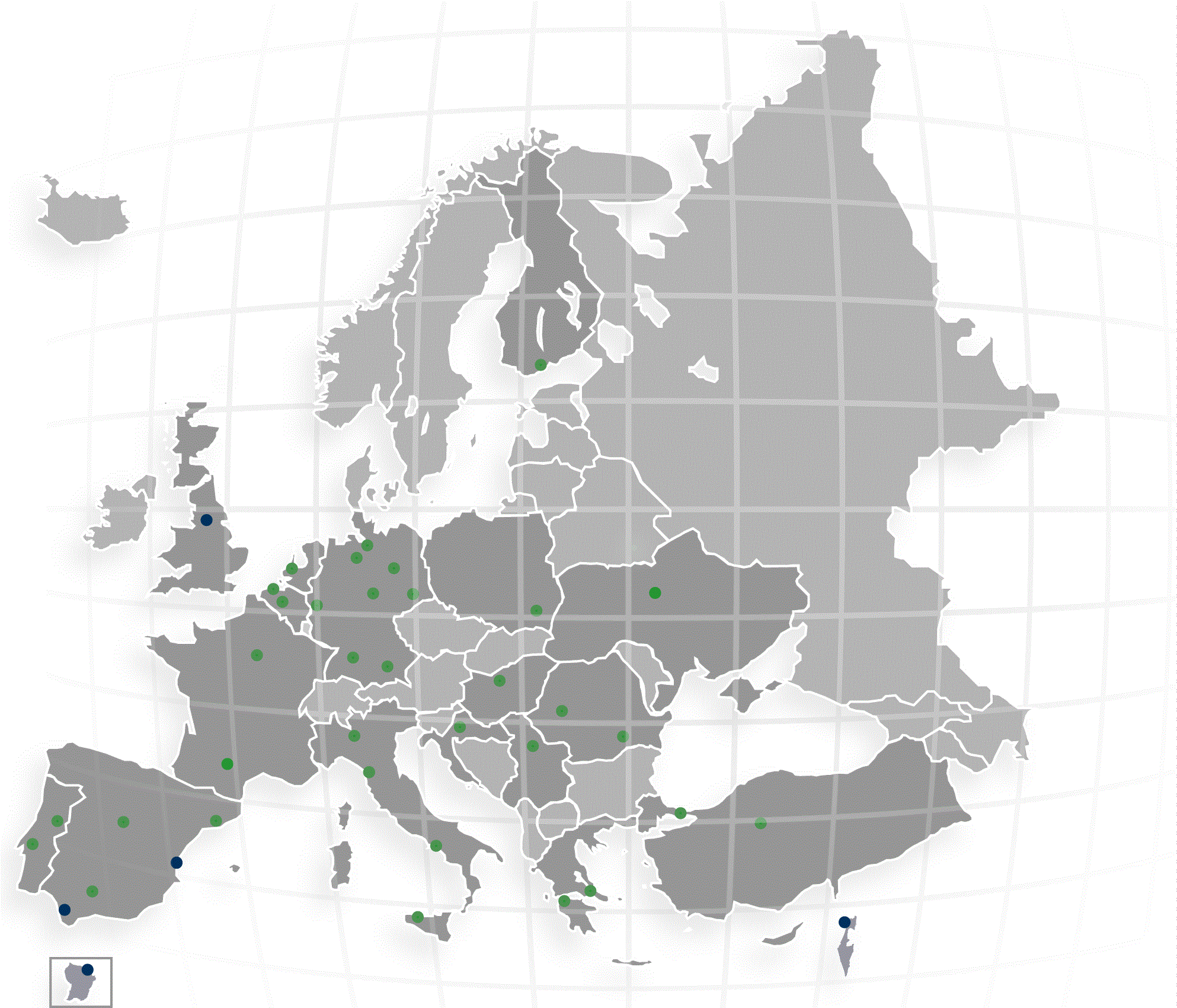 Map of the EUROAVIA Local Groups across Europe in 2015